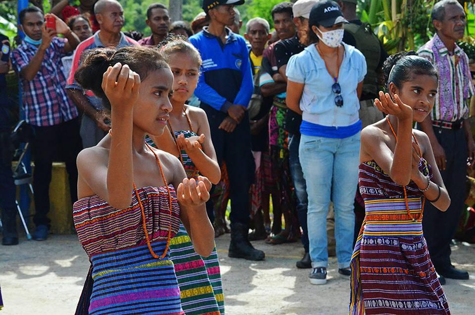 Banafi